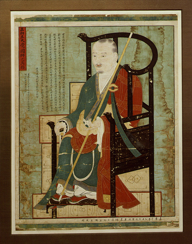 Portrait of Uicheon Daegakguksa (National Preceptor) of Goryeo Dynasty.